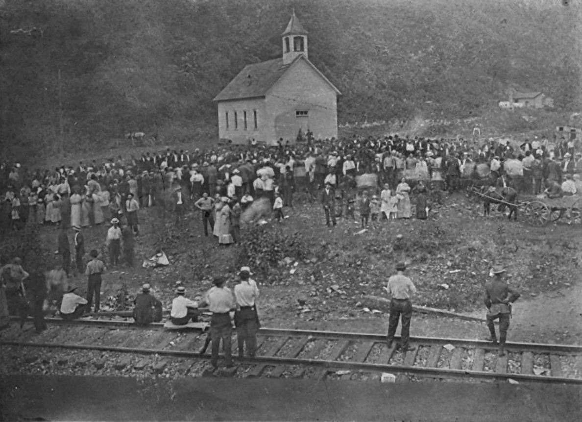 Mother Jones rallying the miners at Eskdale, West Virginia during the Paint--Cabin Creek strike from 1912-1913.